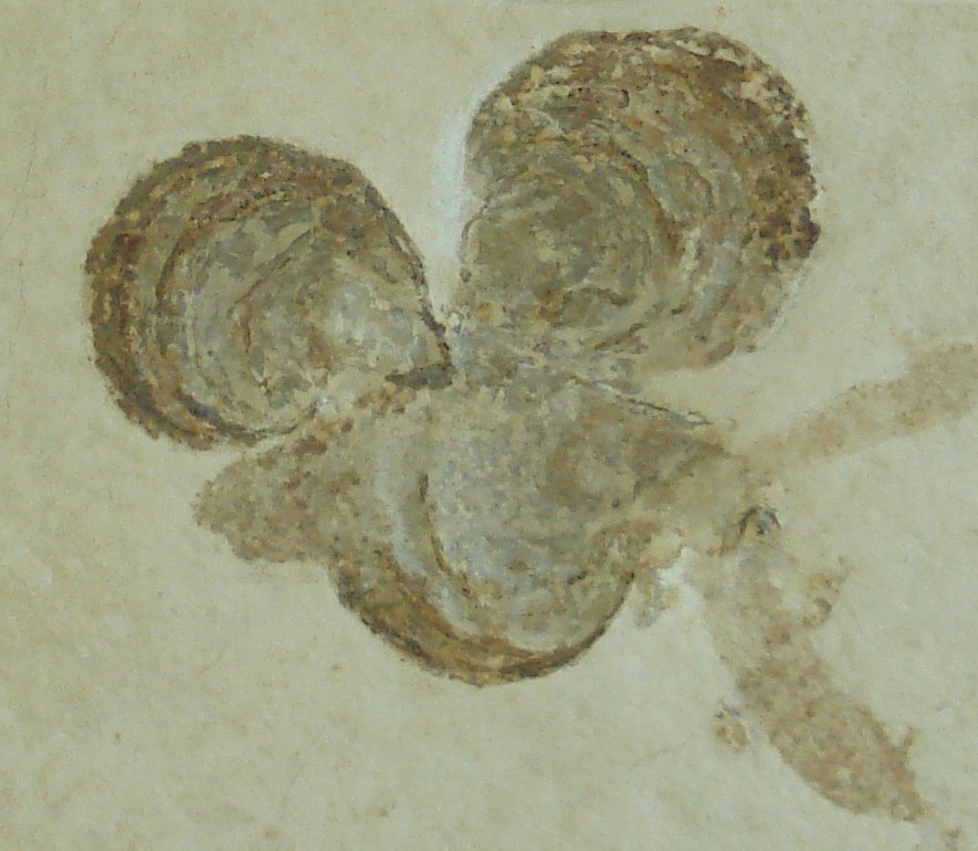 Fossil of three Liostrea socialis